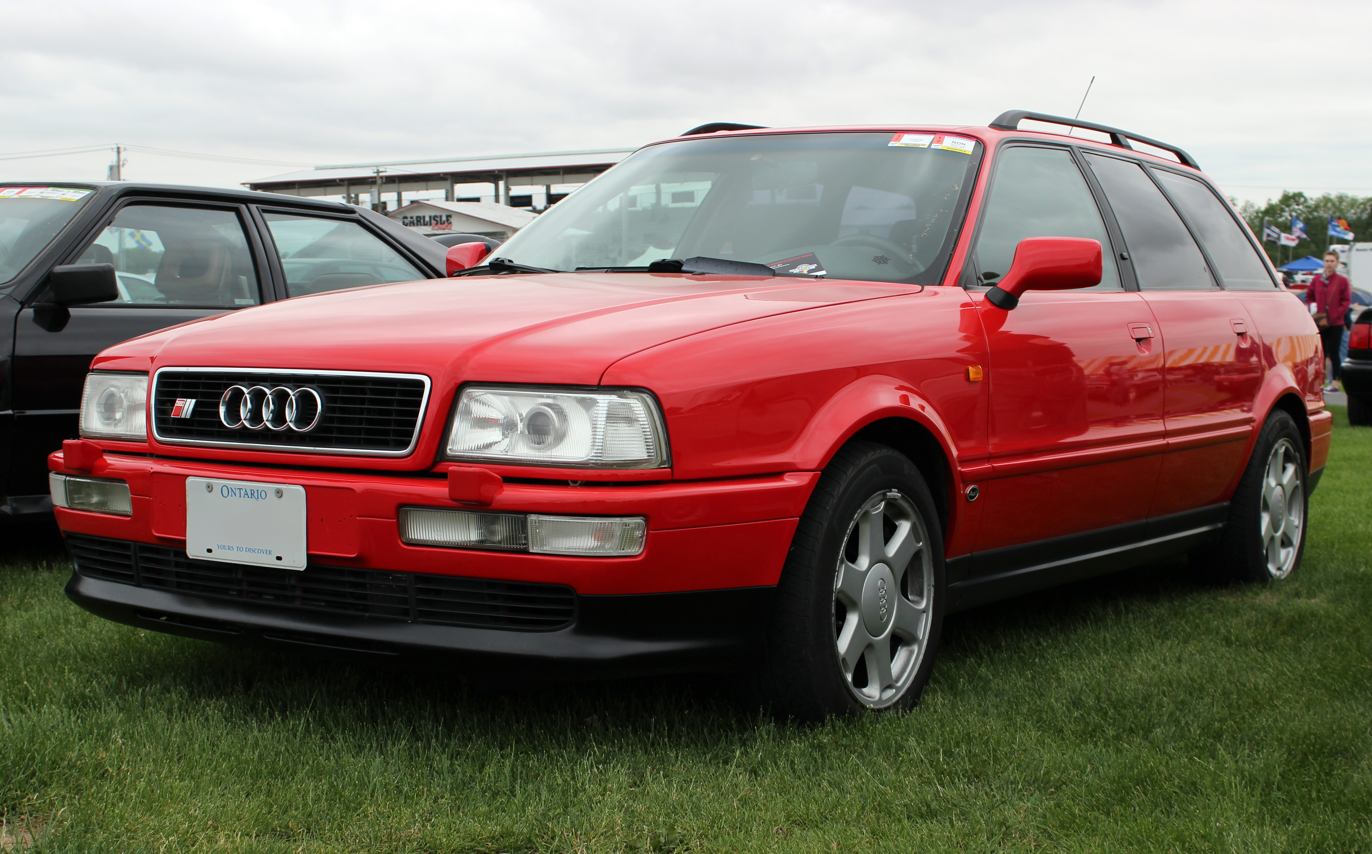 Audi S2 Avant